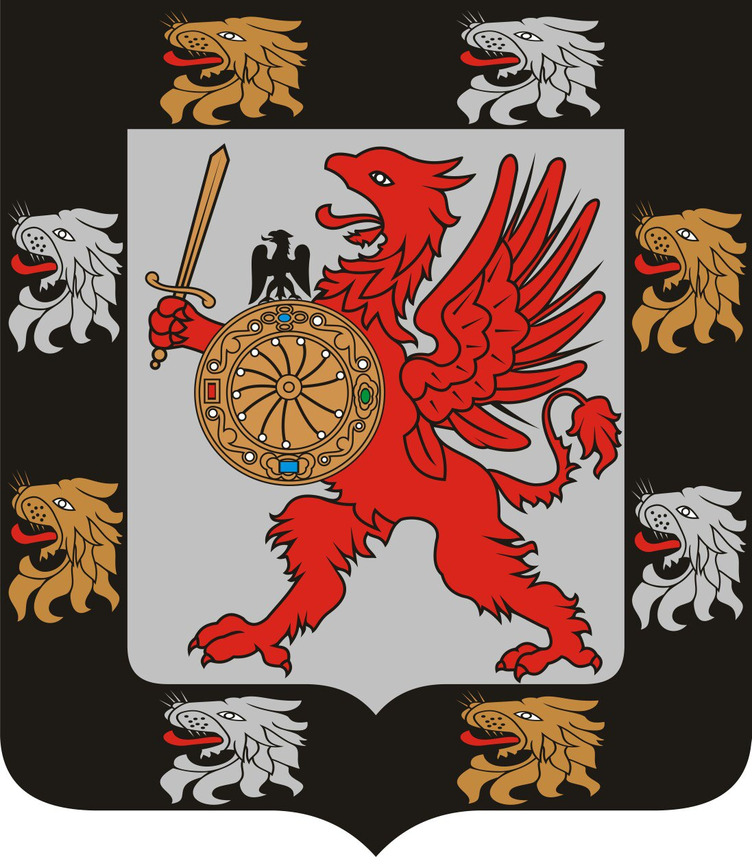 Romanoff dynasty Coat of arms